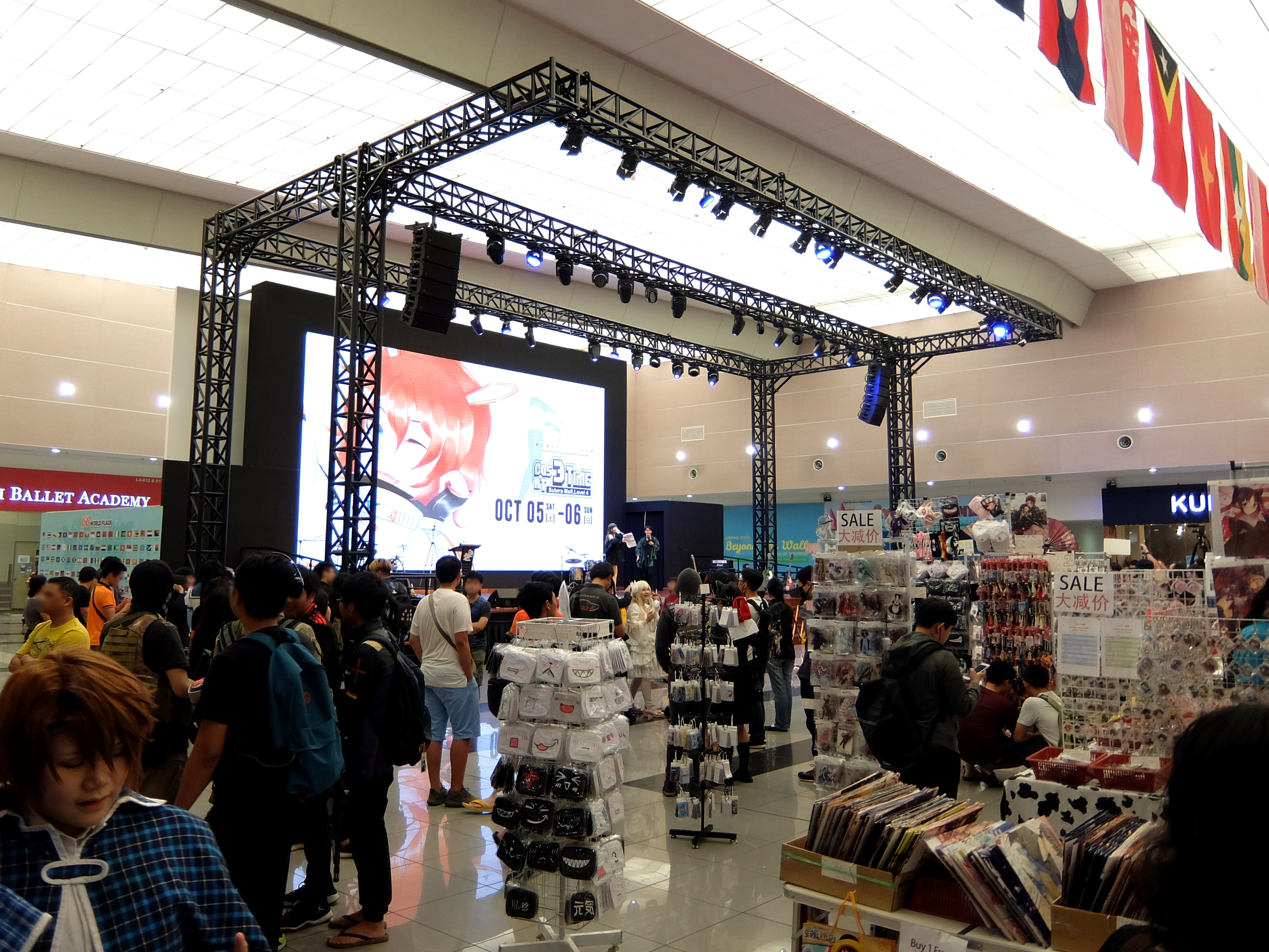 Costime III @ Sutera Mall, Taman Sutera Utama, Skudai, Iskandar Puteri, Johor Bahru, Johor, Malaysia